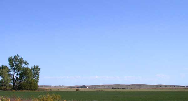 View of the Great Plains west of Kearney, Nebraska, looking north from U.S. Highway 30 (taken Oct. 4, 2004) © 2004 Matthew Trump